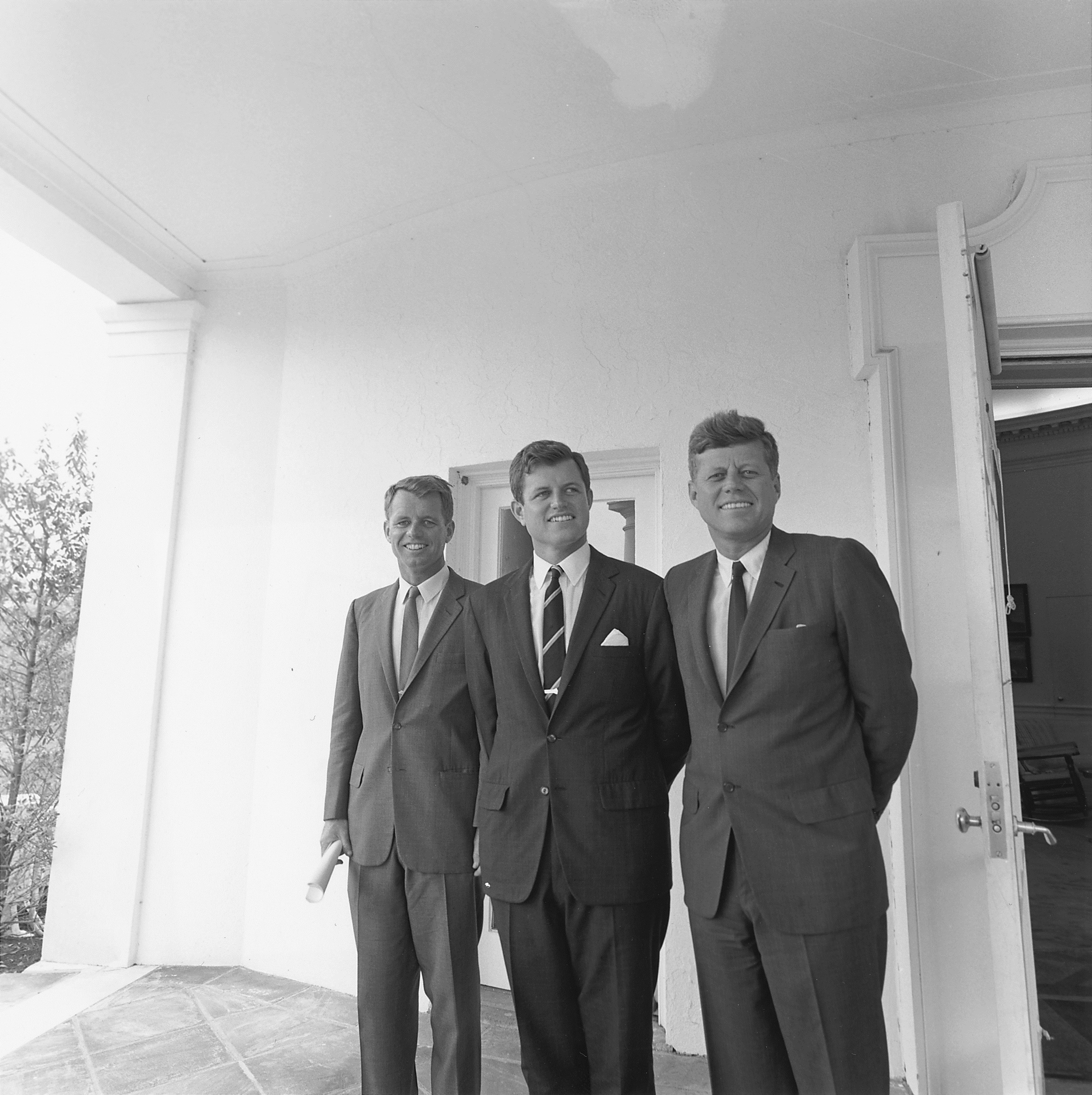 Brothers Robert Kennedy, Edward "Ted" Kennedy, and John F. Kennedy (left to right) just outside Oval Office